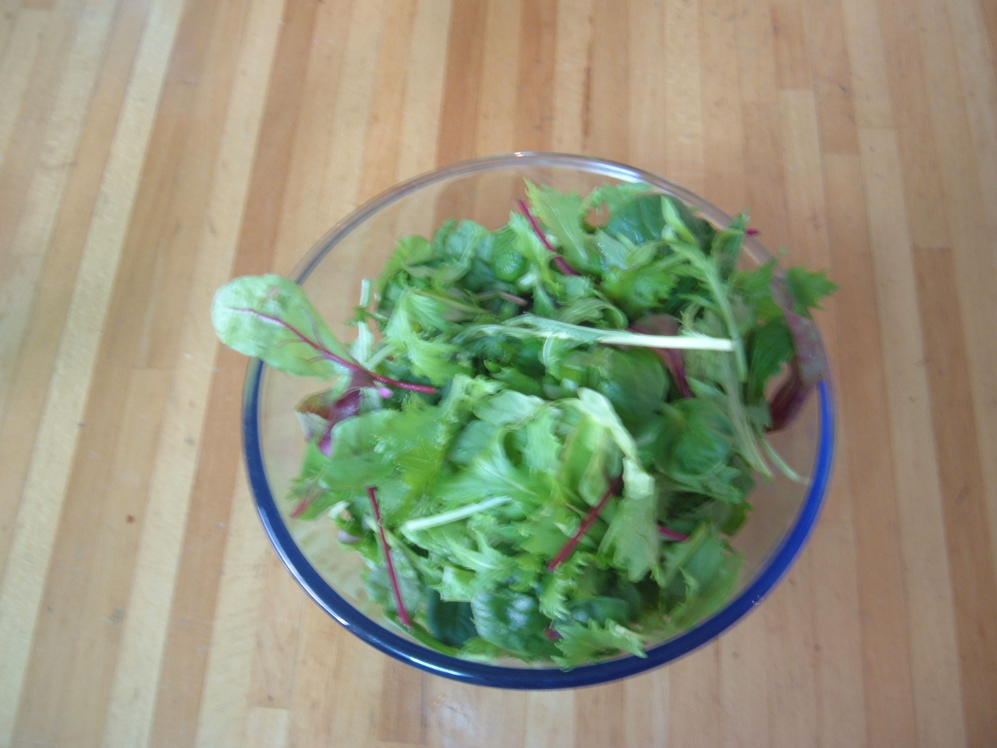 baby leaves mix